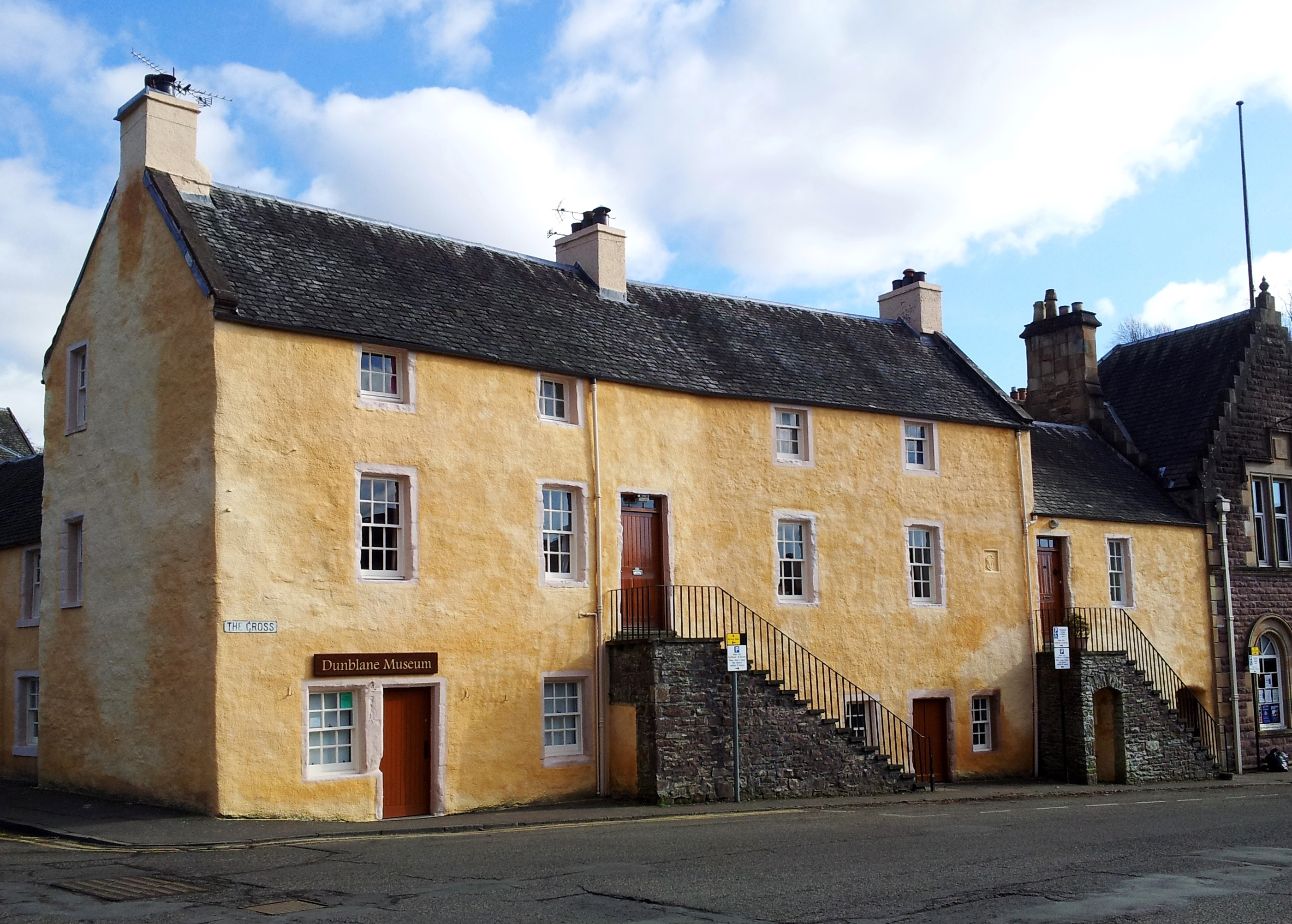 DUNBLANE, KIRK STREET, DUNBLANE CATHEDRAL, MUSEUM Wikidata has entry Q17572379 with data related to this building.